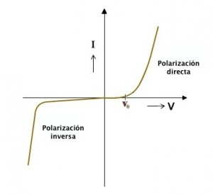 Proyecto de Innovación Docente 2013 de la ETSI de Telecomunicación UPM; coordinador P. Mareca, subido por Alvaro Nieto